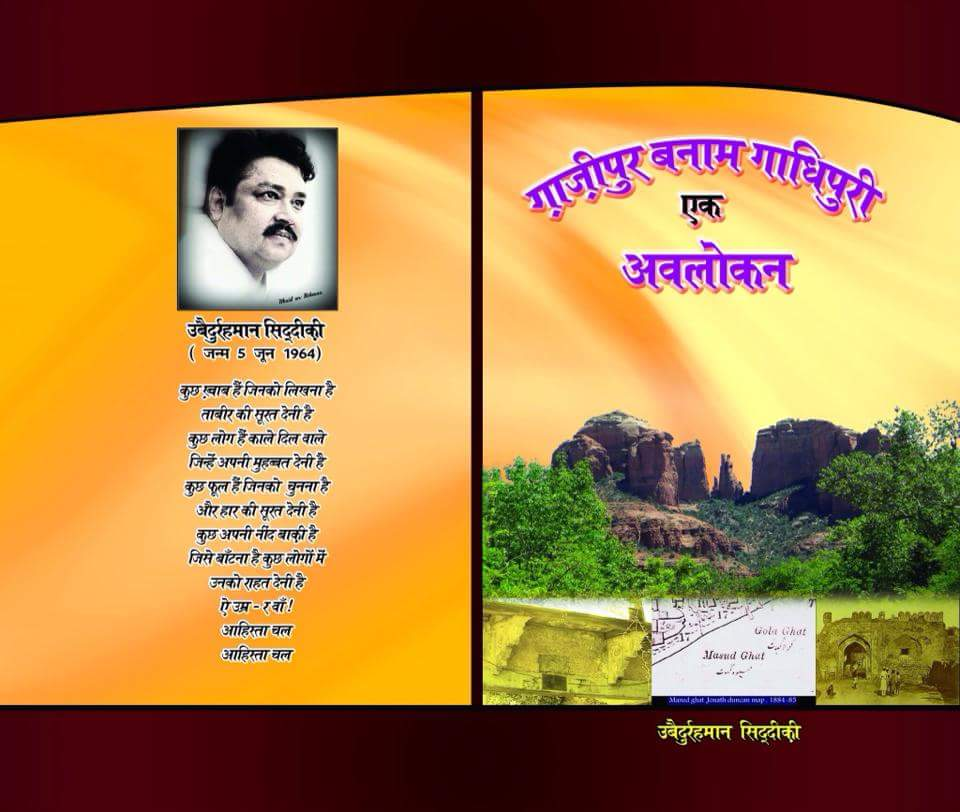 The Book